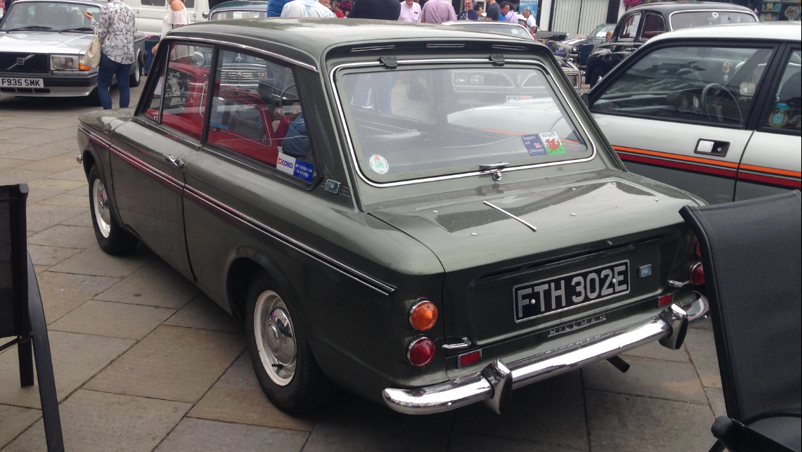 1967 Hillman Imp (In the background is a 1979-1980 Austin Allegro Equipe 1.7I) Taken during the Warwick Classic Car Show